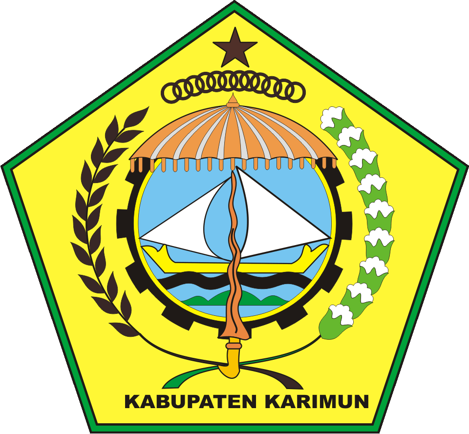 Coat of Arms (Lambang) of Regency (Kabupaten) Karimun, Provinsi Kepulauan Riau (Riau Islands/Archipelago Province), Indonesia